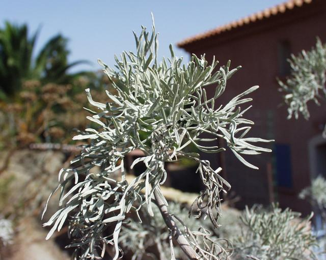 (en) Artemisia arborescens, a photography originating of the internet site The accord of the autor, H. Brisse, is here. (fr) Artemisia arborescens, une photographie issue du site internet L'accord de l'auteur, H. Brisse, se situe ici.